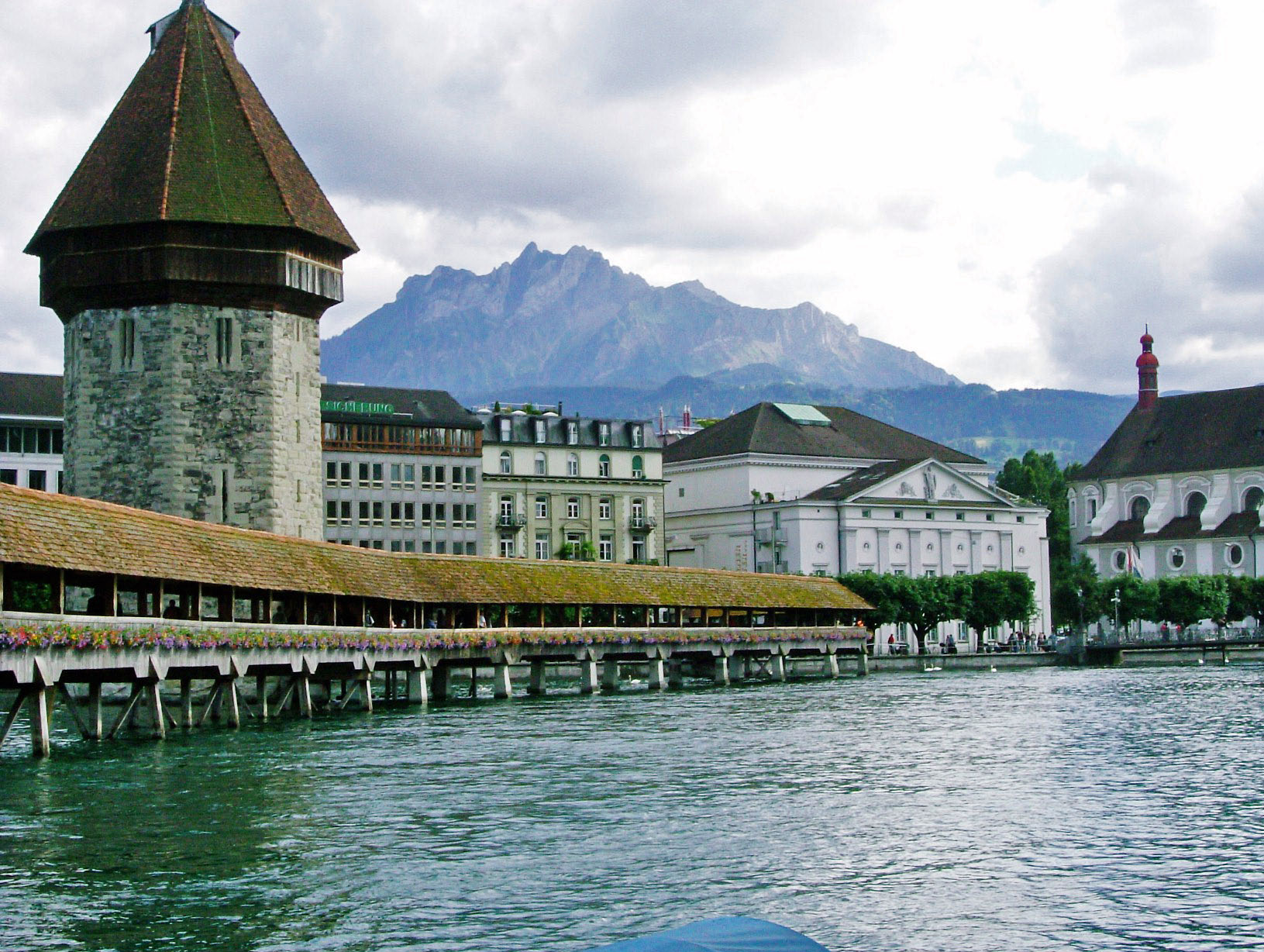 Chapel Bridge and Pilatus